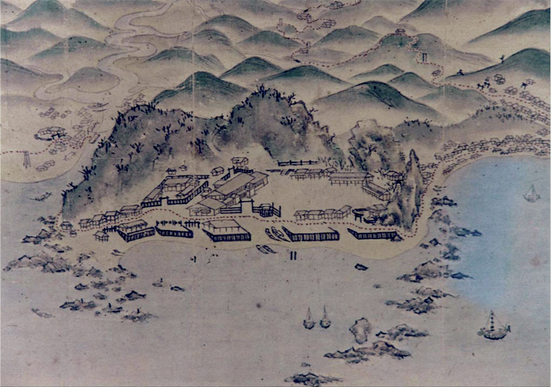 Bird's-eye view of Yoichi during the Ansei era